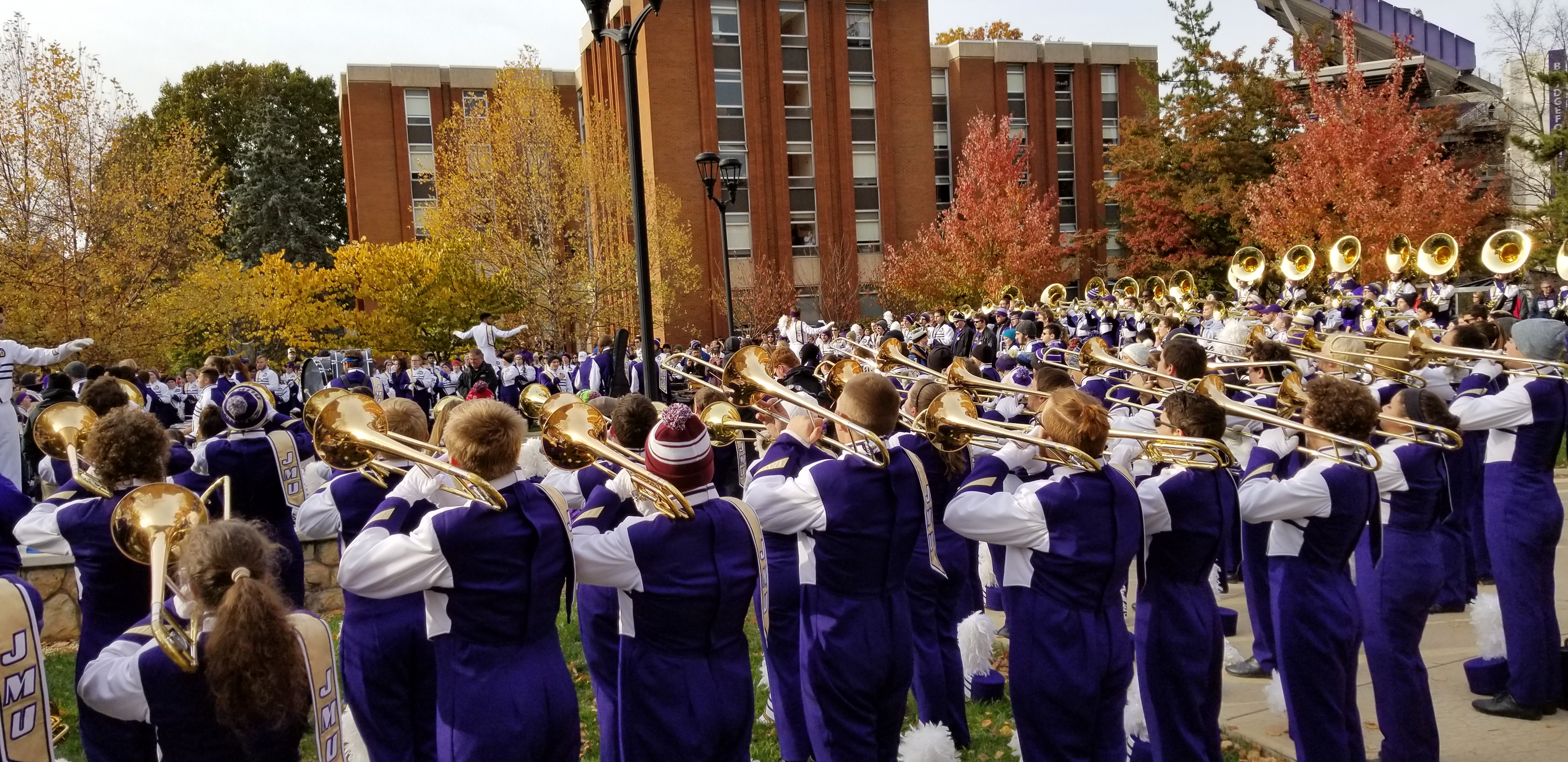 marching royal dukes at warmup on JMU campus in Harrisonburg,VA